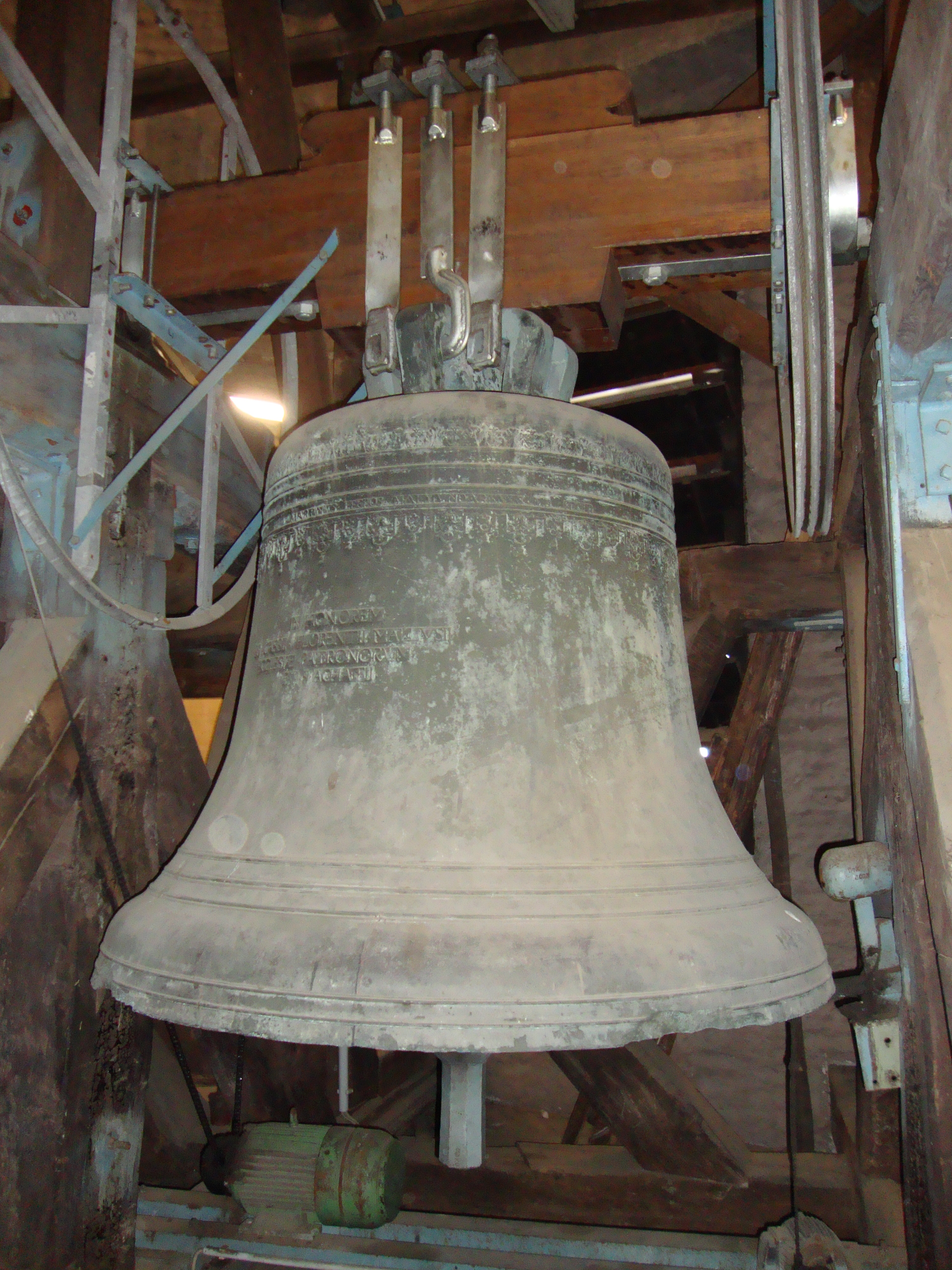 Second bell of Bonner Münster, Cassius- und Florentinusglocke.